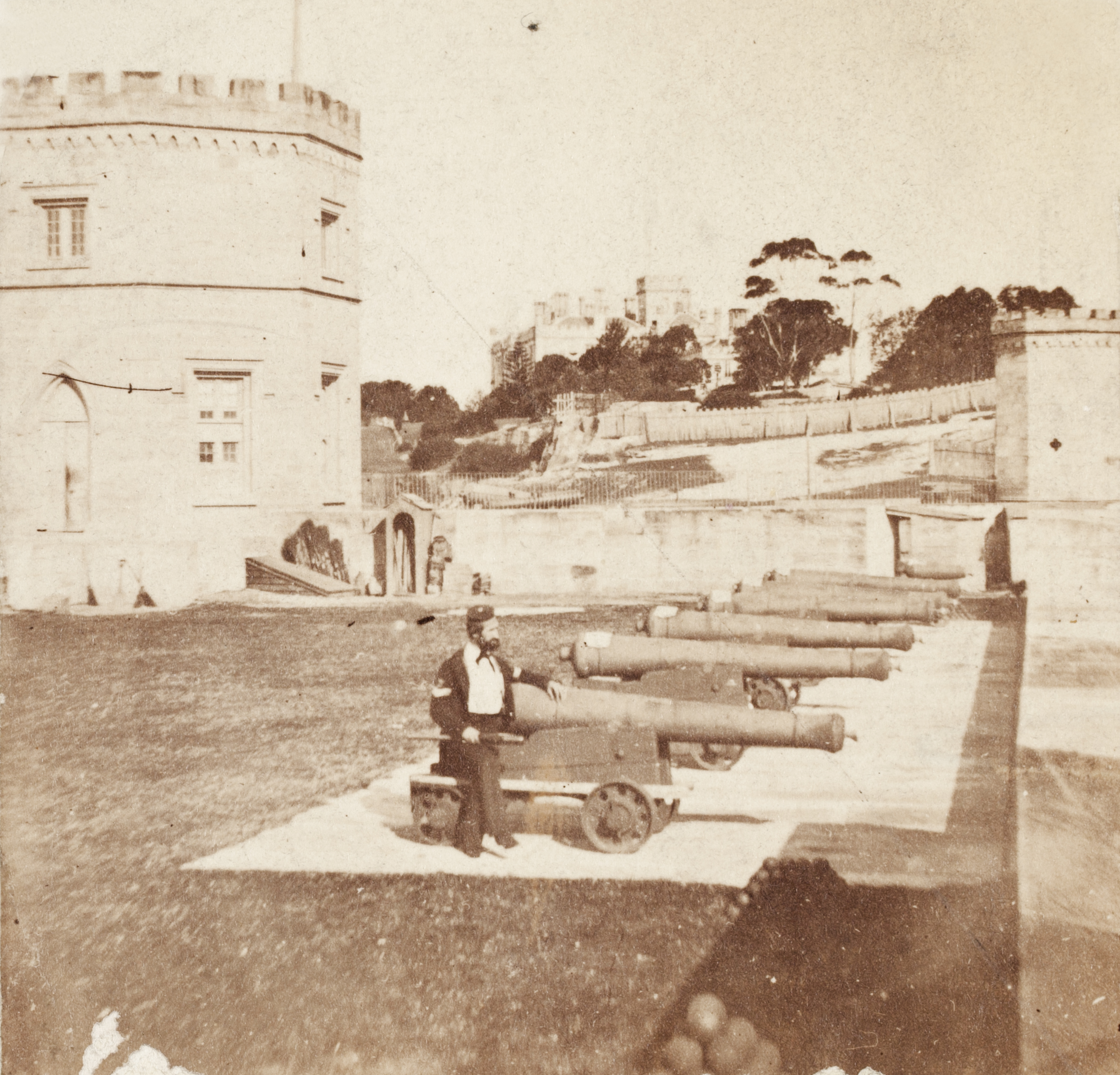 Fort Macquarie and Government House, Sydney, ca. 1858-1859, William Hetzer, right frame from vintage albumen print, Stereoscopic Views of Sydney, State Library of New South Wales, PXB 334 / 1